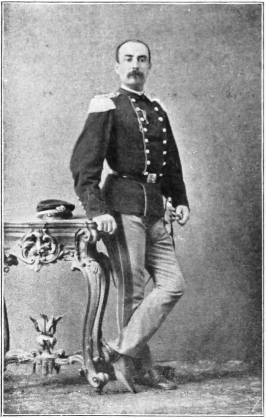 Image from book: Leopoldo Pullè, Patria Esercito Re, Ulrico Hoepli, Milan, 1908.